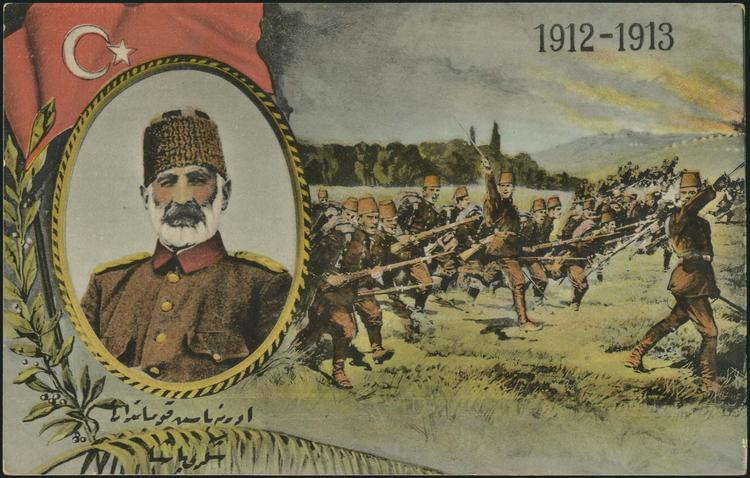 1912-13 Shukri Pasha